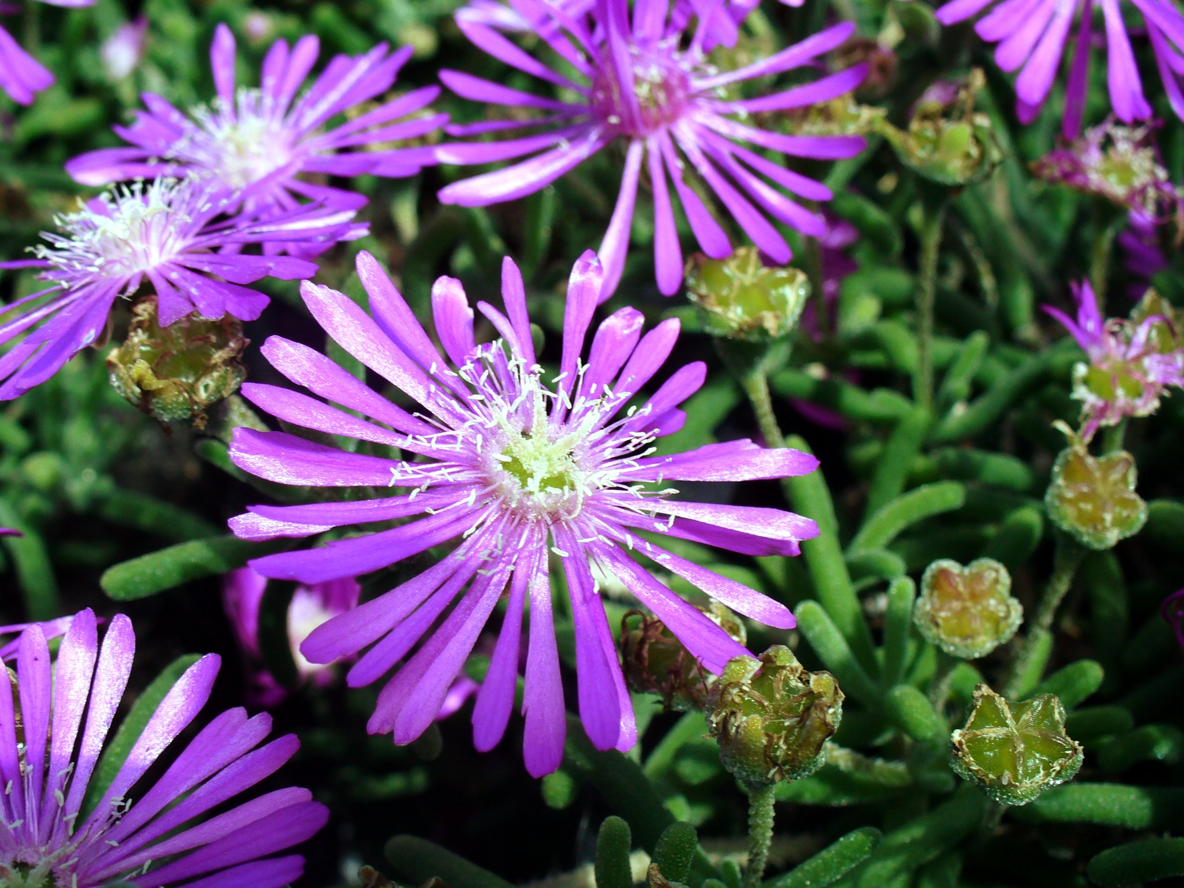 Delosperma cooperi flower